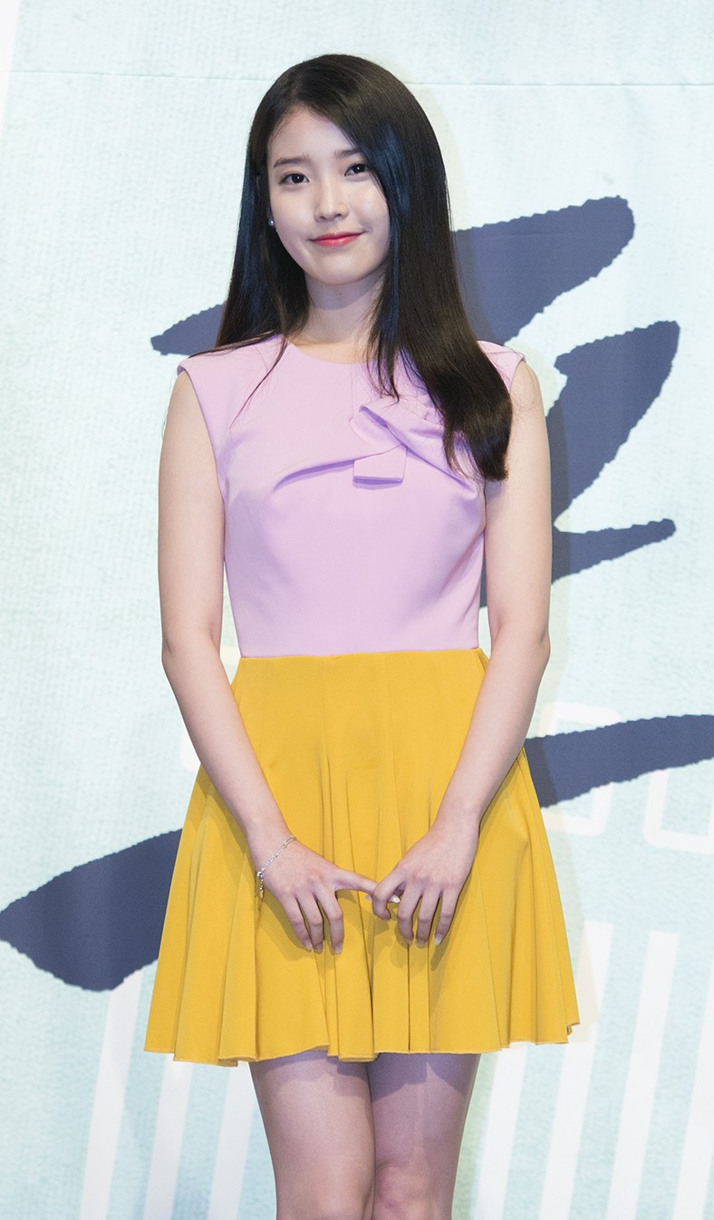 KBS "The Producers" press conference, 11 May 2015. IU.